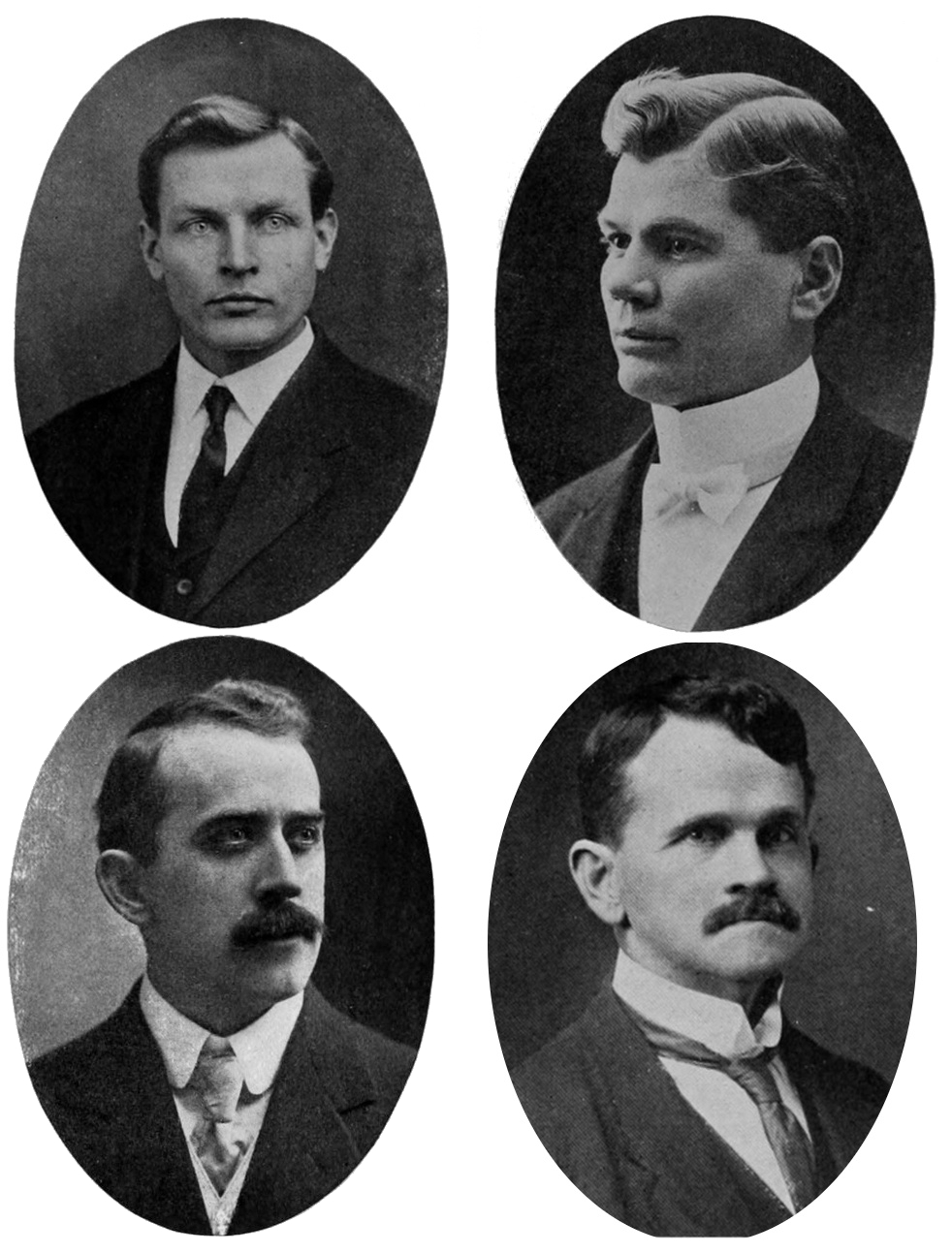 The four professors involved in the 1911 evolution controversy at Brigham Young University. From left to right, top to bottom: Joseph Peterson, Henry Peterson, Ralph Vary Chamberlin, W. H. Chamberlin. All images from the 1911 edition of the Banyan yearbook, with the exception of W. H. Chamberlin, from the 1914 edition.